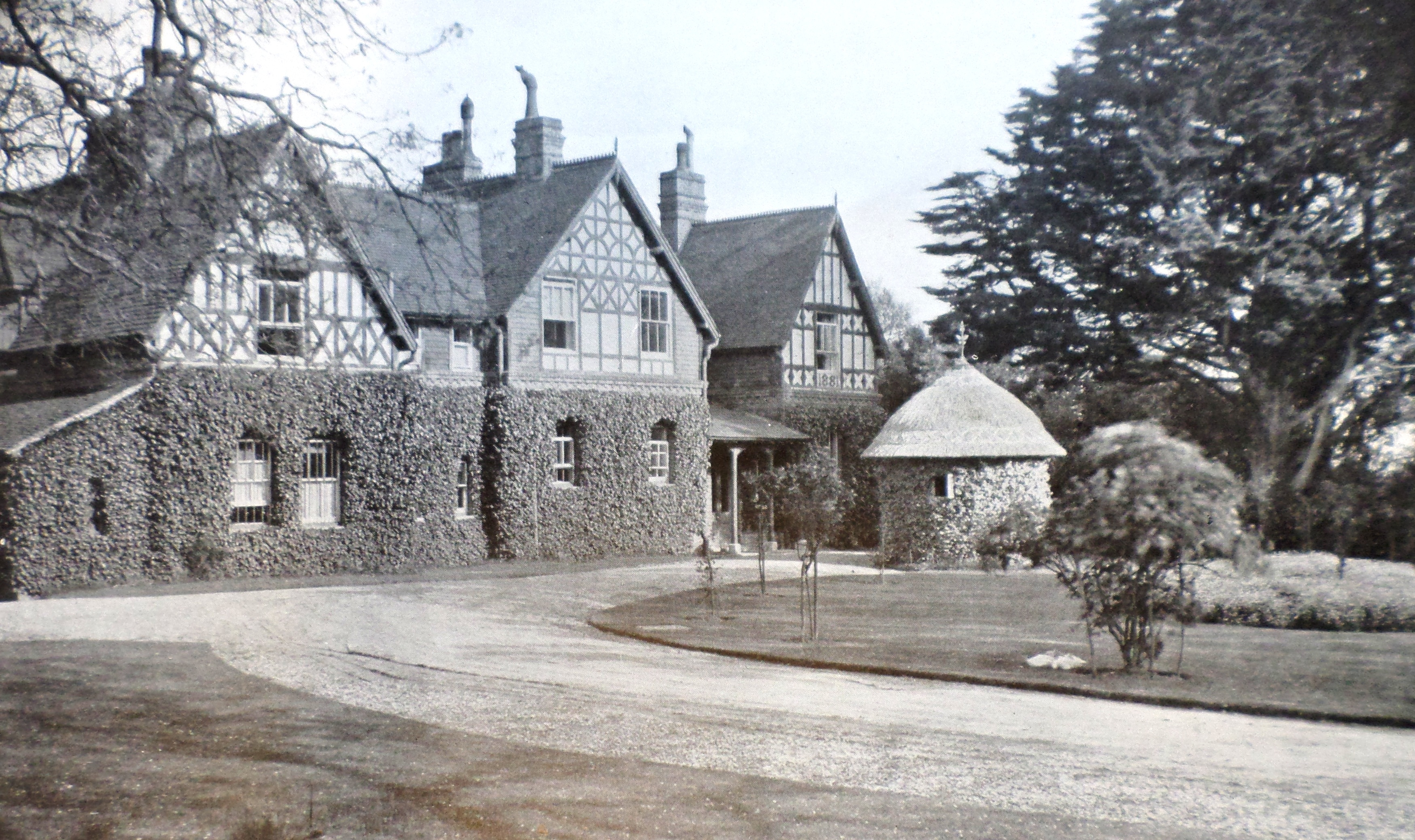 De Bathe property sale 1919 Hollandsfield photograph